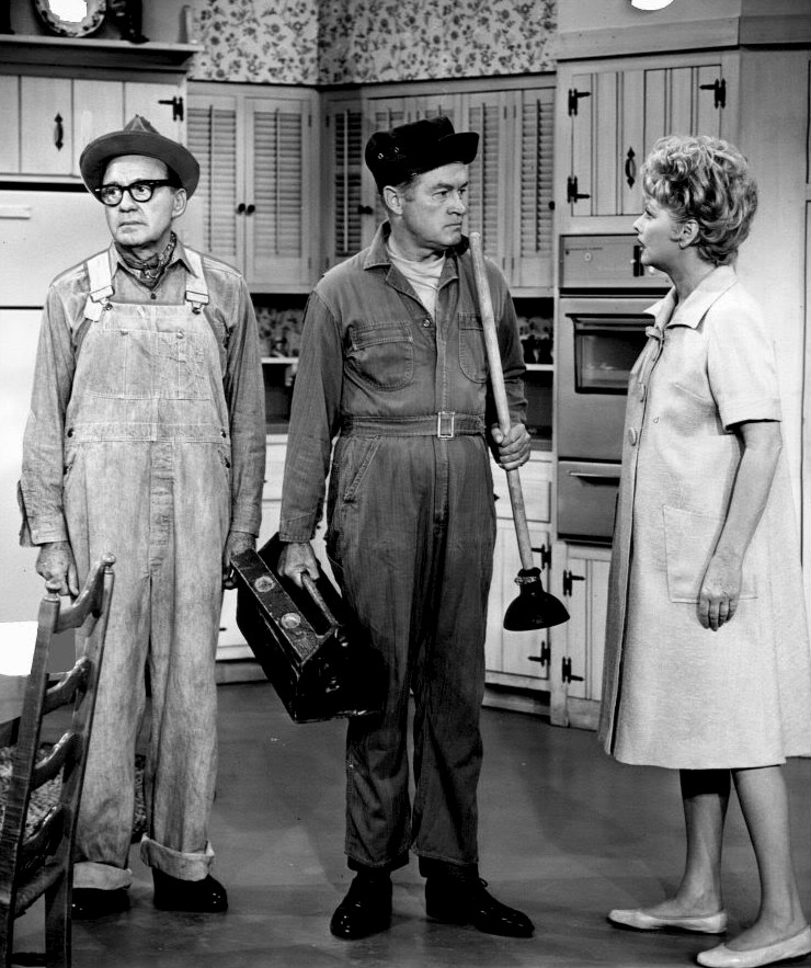 Photo of Jack Benny, Bob Hope and Lucille Ball from the television program The Lucy Show. When Lucy calls a plumber, Bob Hope and his assistant, Jack Benny, arrive.